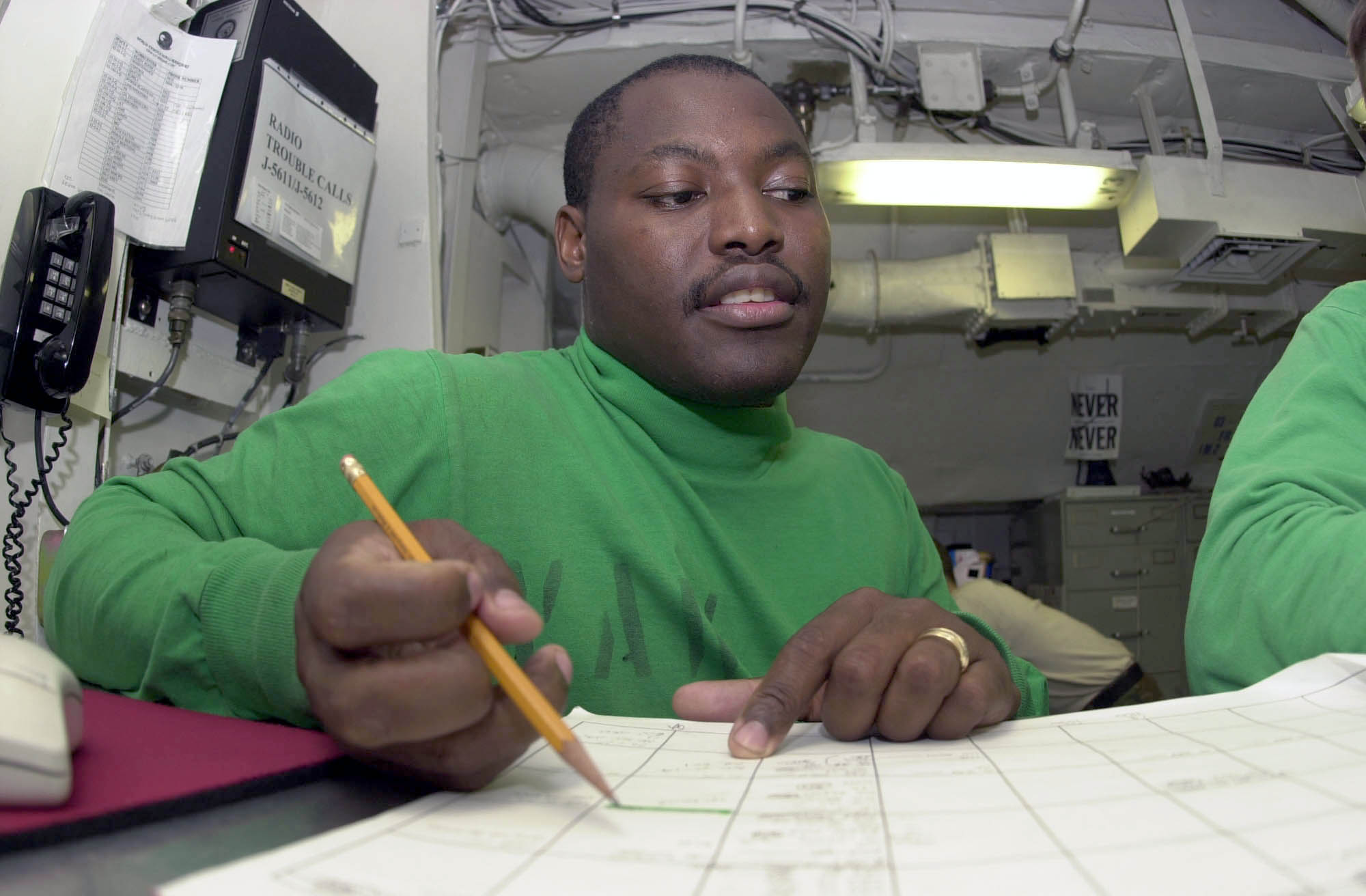 The Arabian Gulf (Jun. 24, 2003) -- Aviation Maintenance Administrationman 1st Class Bjorn Nevarez assigned to the “Wallbangers” of Carrier Airborne Early Warning Squadron One Seventeen (VAW-117) reviews the evening flight plan aboard USS Nimitz (CVN 68). Nimitz Carrier Strike Group and Carrier Air Wing Eleven (CVN-11) are deployed in support of Operation Iraqi Freedom. Operation Iraqi Freedom is the multi-national coalition effort to liberate the Iraqi people, eliminate Iraq’s weapons of mass destruction, and end the regime of Saddam Hussein. U.S. Navy photo by Photographer’s Mate 3rd Class Yesenia Rosas. (RELEASED)